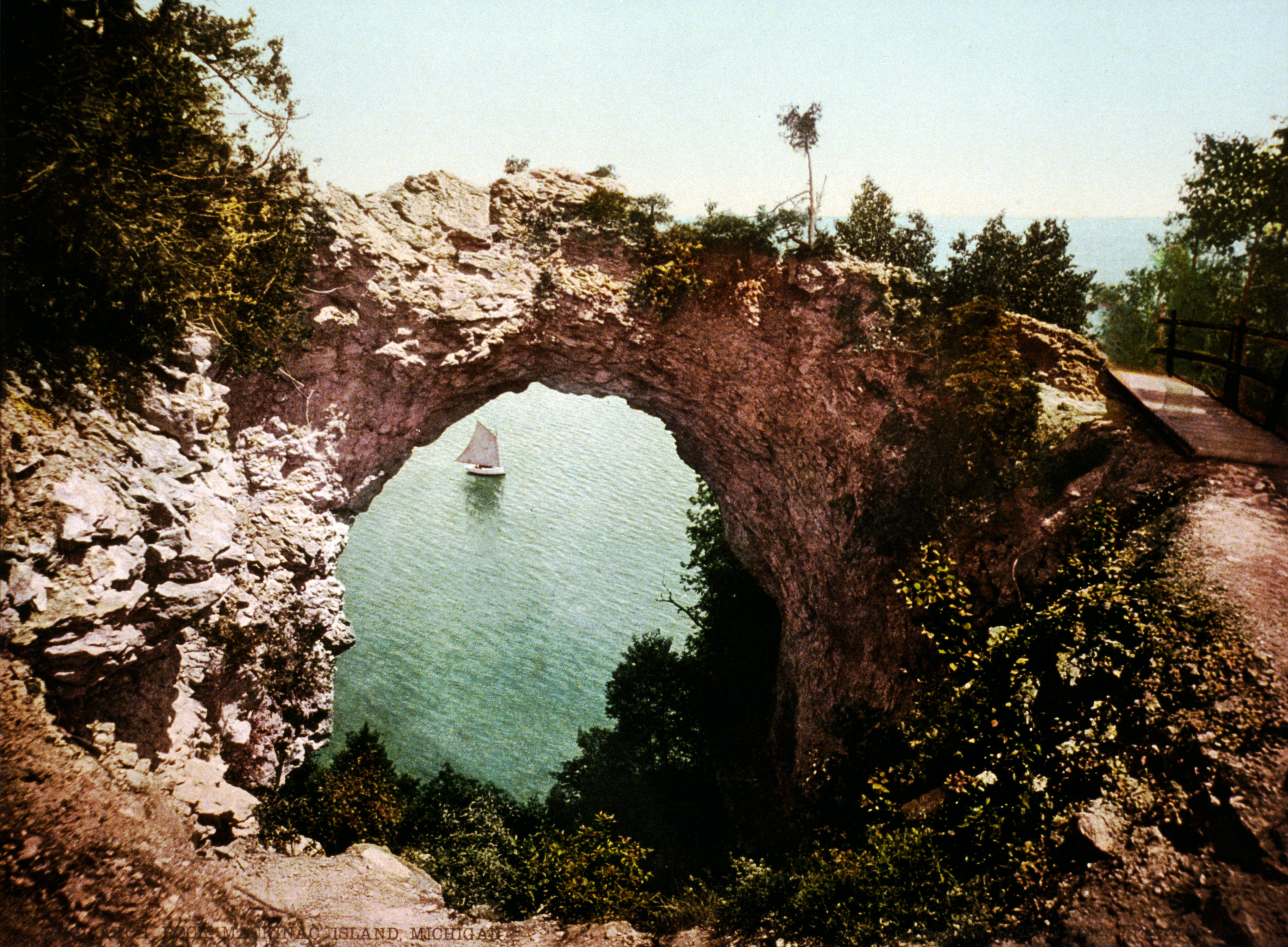 Arch Rock, Mackinac Island, Michigan. 1 photomechanical print : photochrom, color.